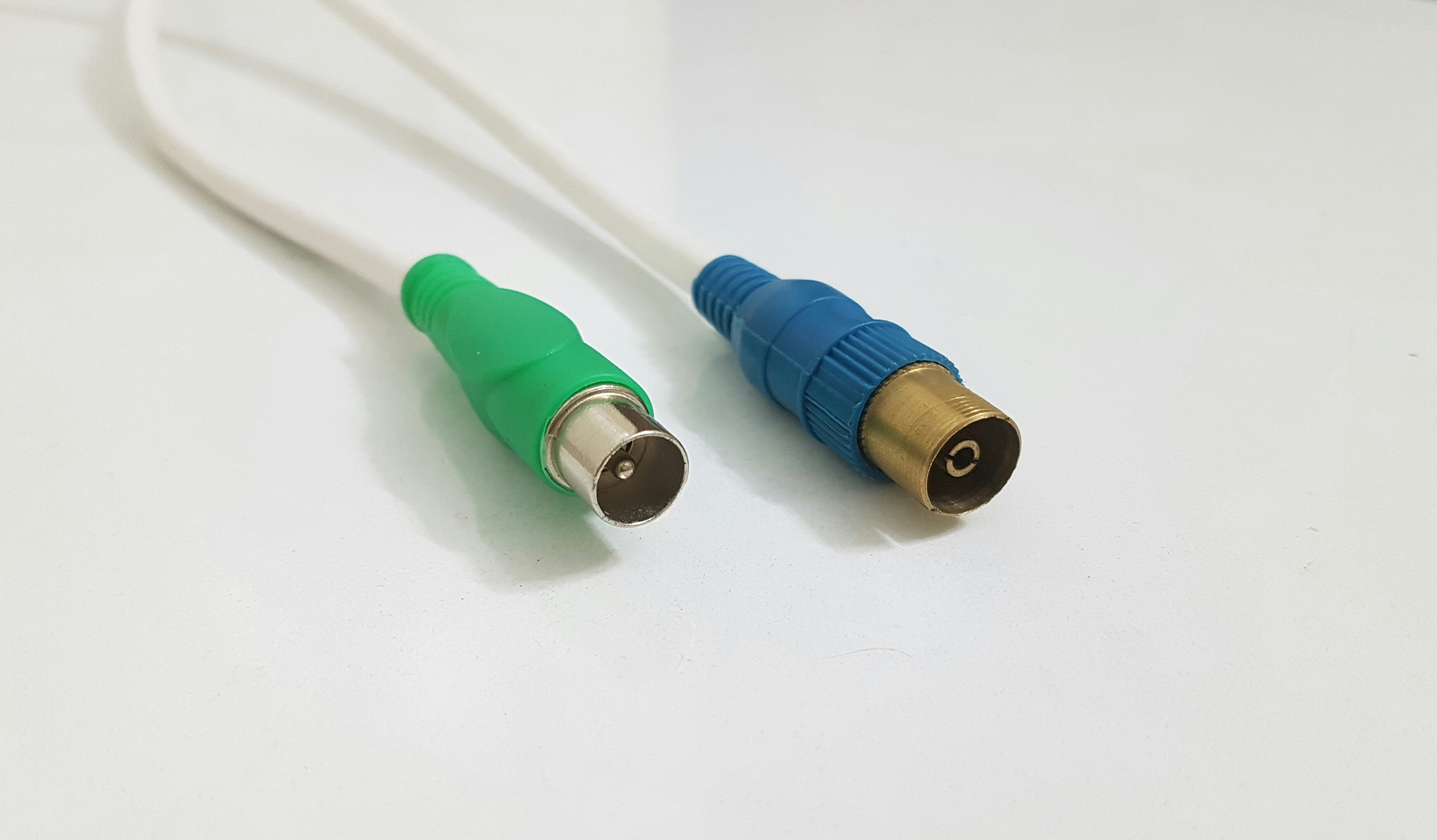 Belling lee connector